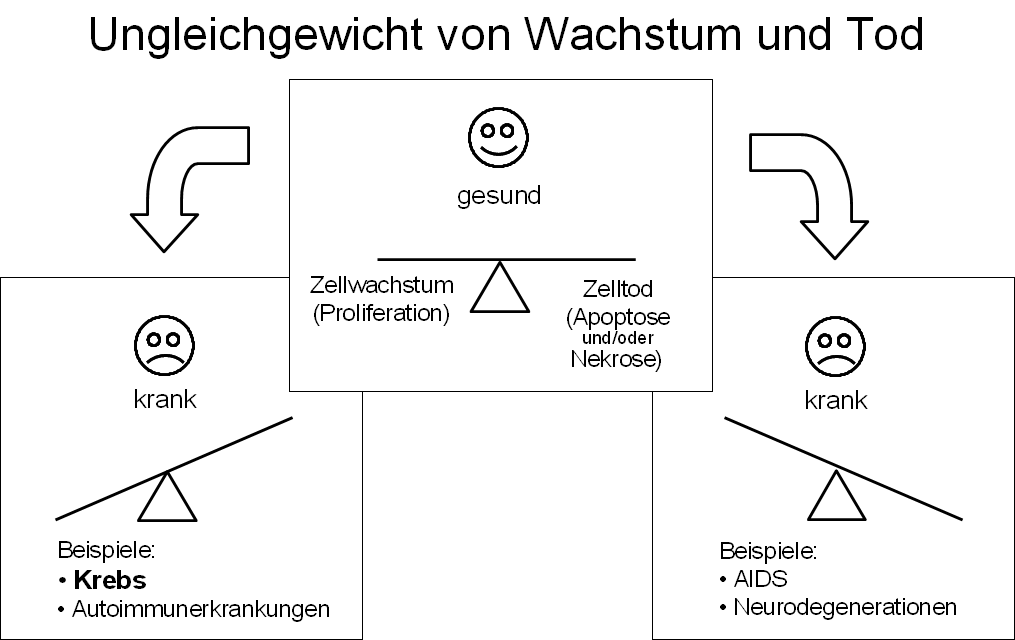 Picture shows development of diseases including cancer